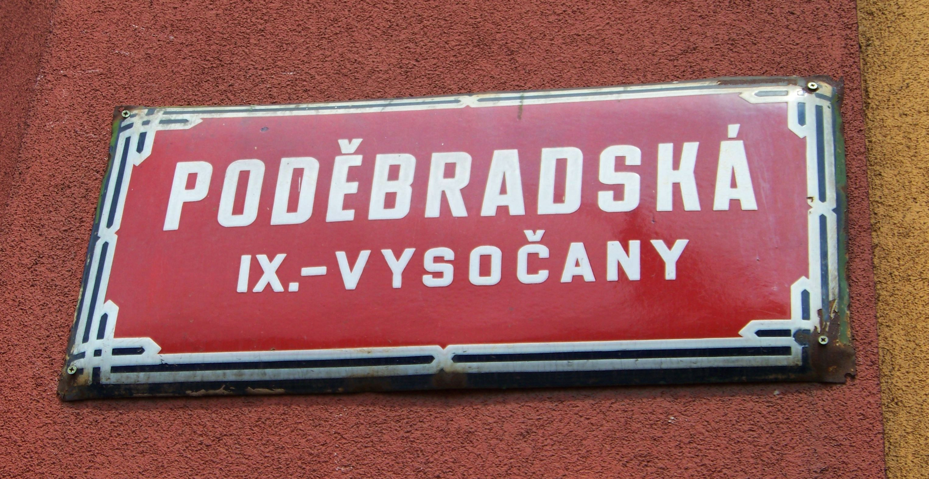 Prague-Vysočany, the Czech Republic. Poděbradská street, a street sign. - OpenStreetMap (Info)